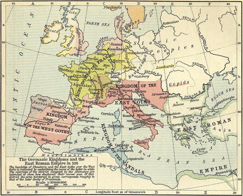 Depicts Germanic kingdoms across Europe as well as Eastern Roman Empire in 526.